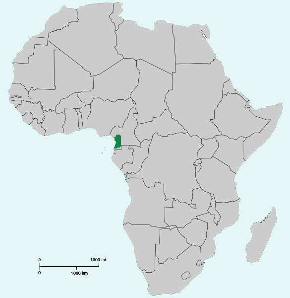 Range map of the Goliath Frog, Conraua goliath. This species lives in tropical western Africa within the states of Cameroon and Equatorial Guinea. That range is coloured green. References: and range map at